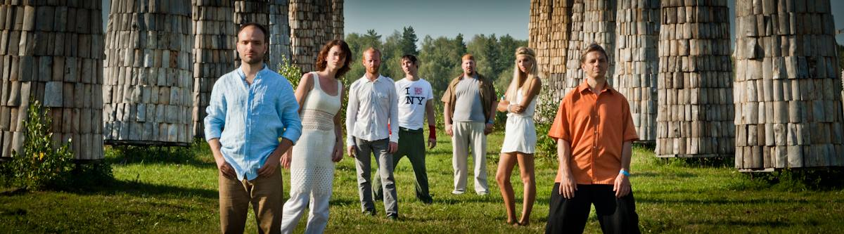 band photo